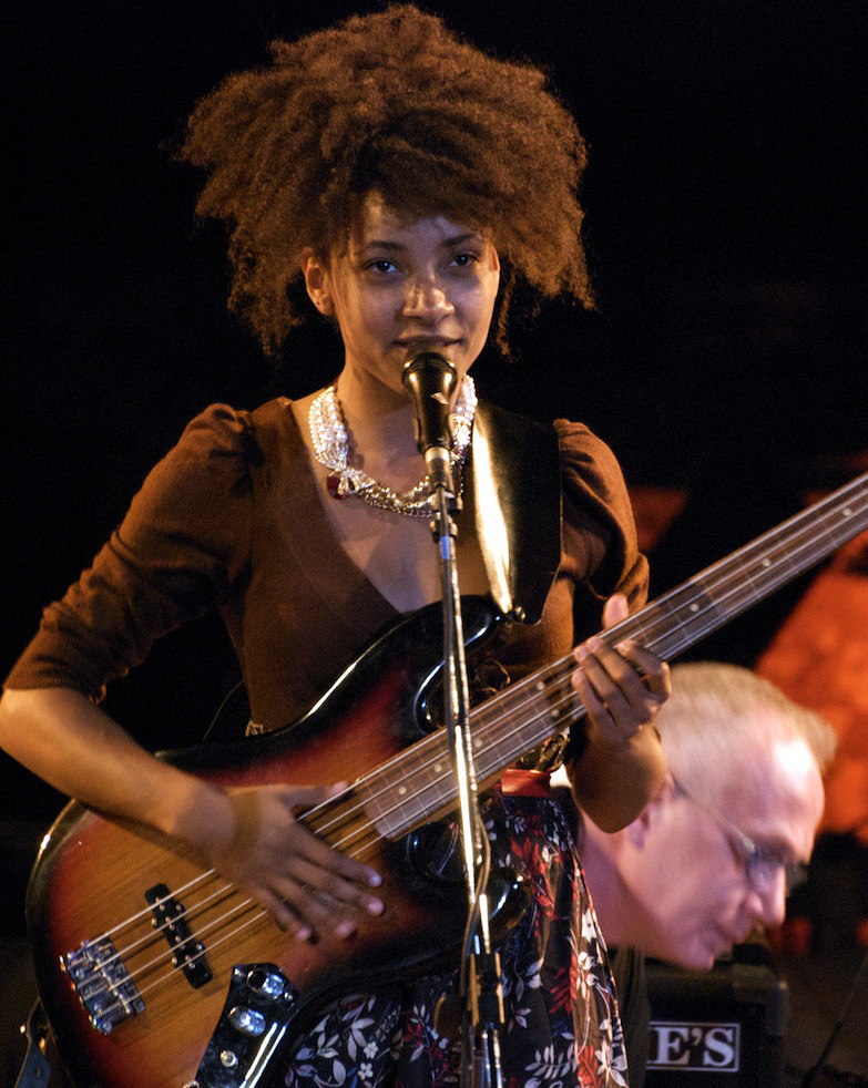 Esperanza Spalding performing in 2009.